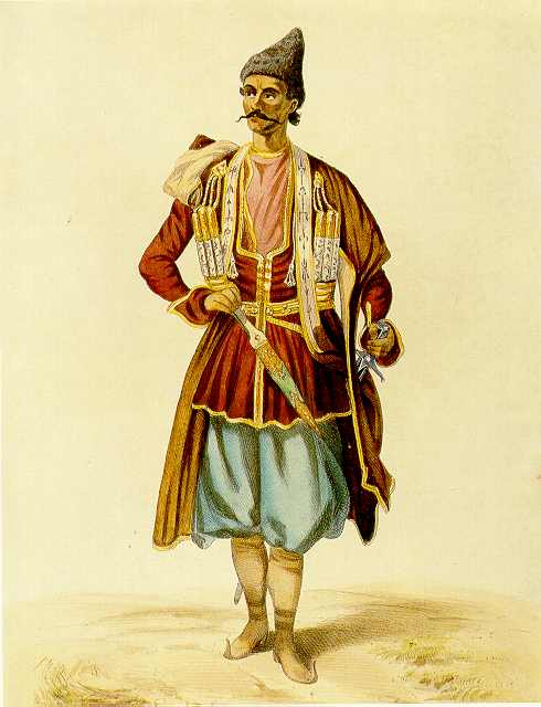 Bek from Karabakh. Painting by Russian artist Grigory Gagarin (1811 - 1893).